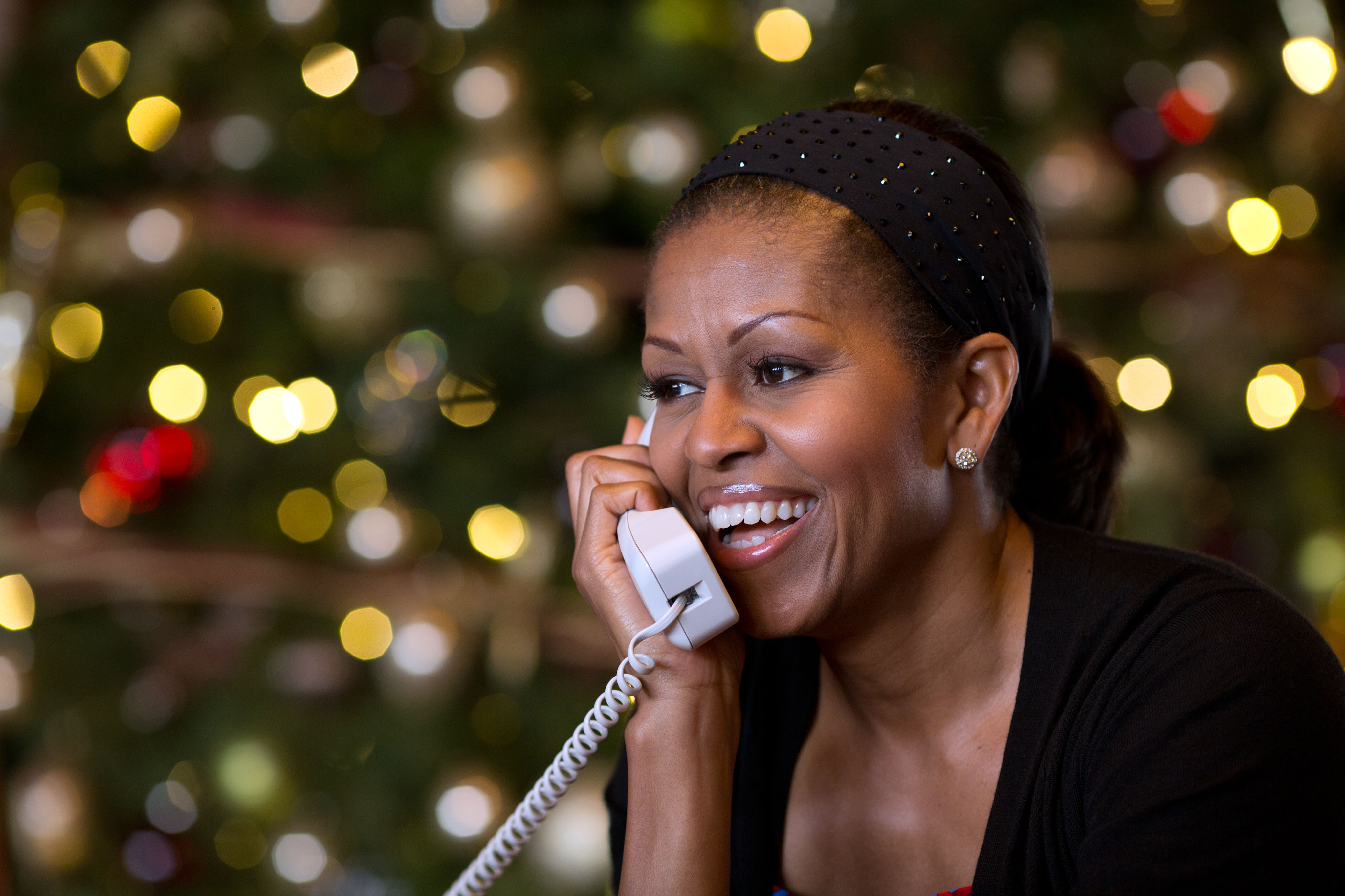 United States First Lady Michelle Obama talks on the telephone to children across the United States as part of the annual NORAD Tracks Santa programme. Mrs. Obama answered the telephone calls from Kailua in Hawaii on Christmas Eve, 2012.